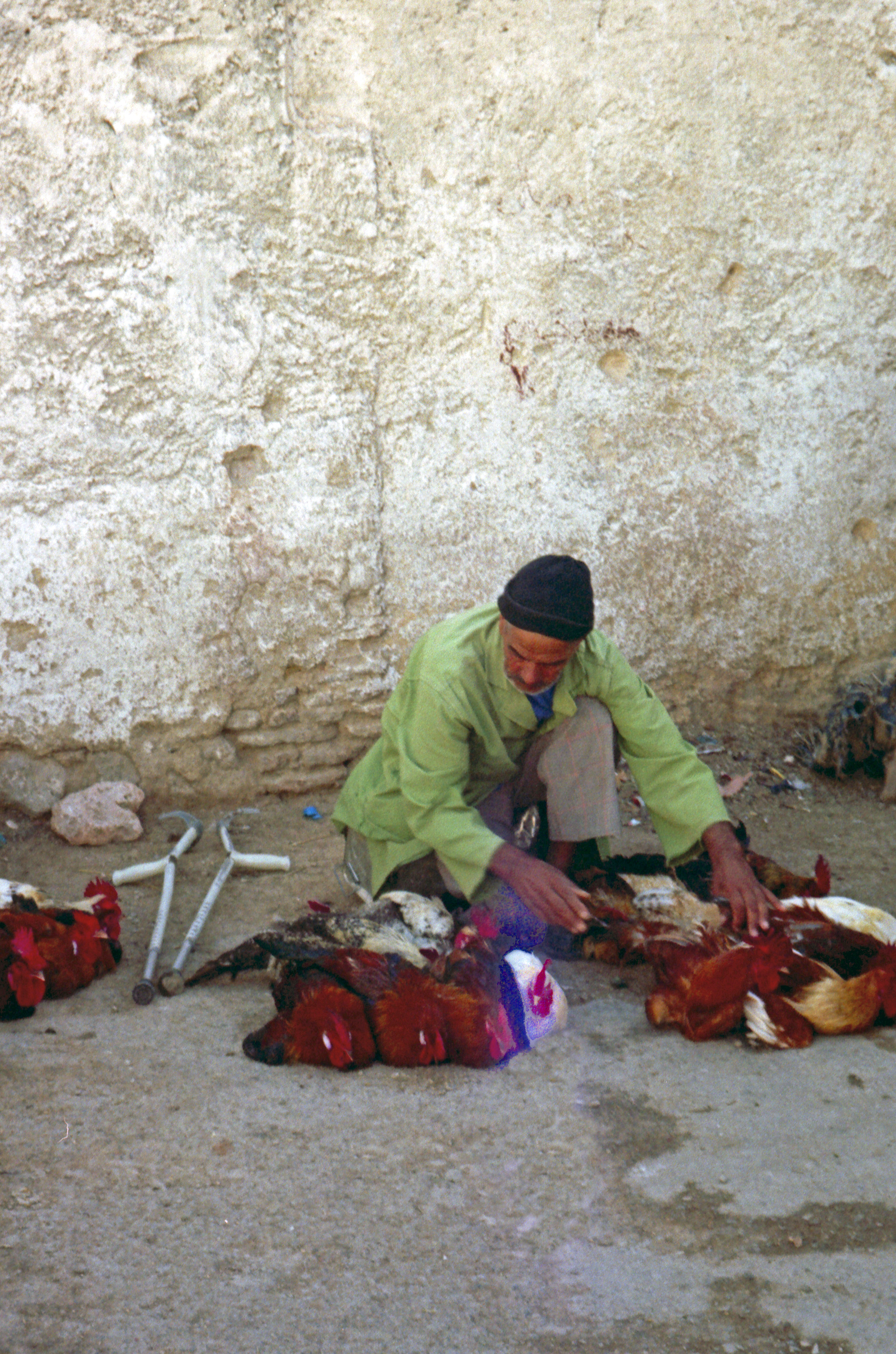 Man selling chicken at the Medina in Fez, Morocco